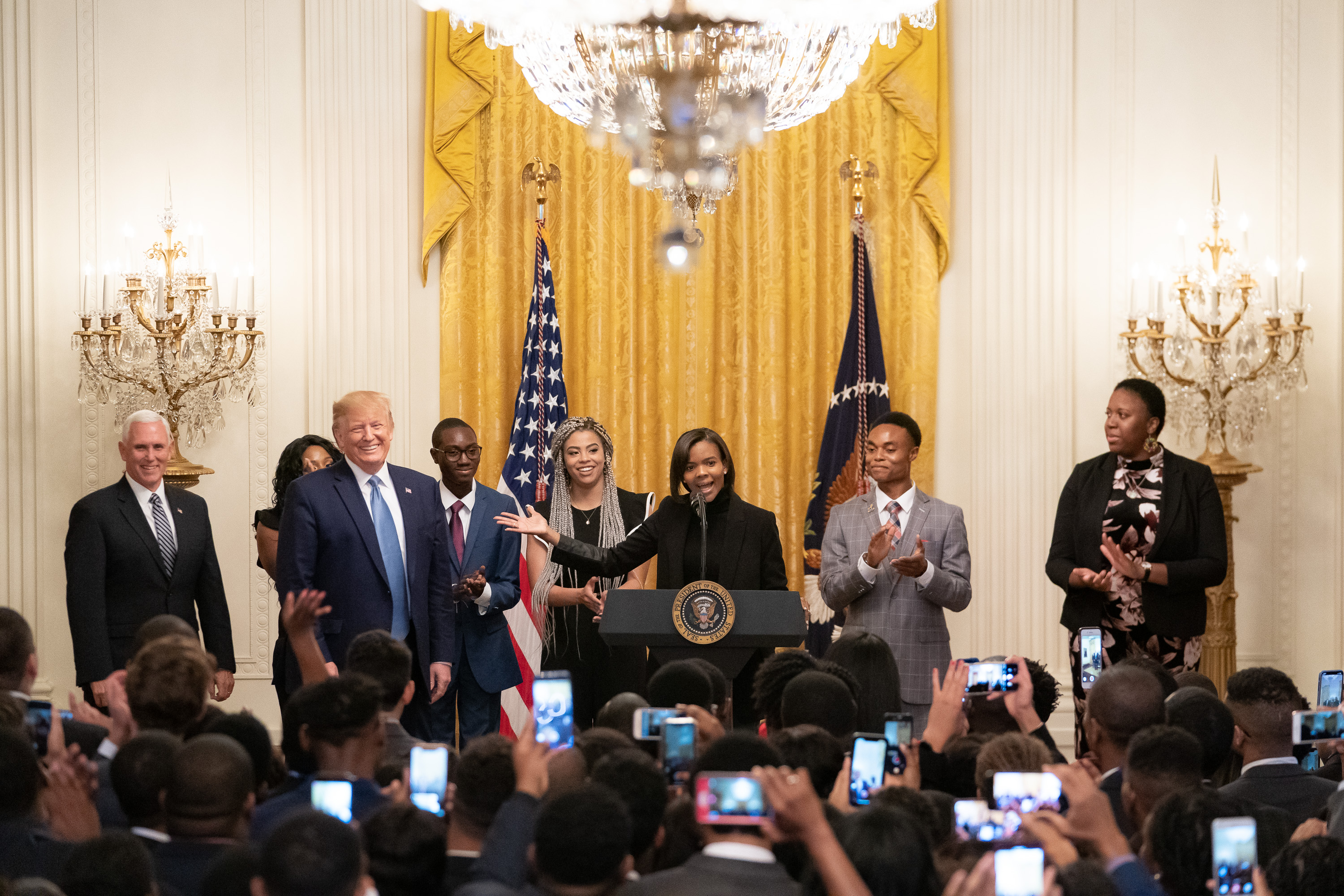 President Donald J. Trump listens as Candace Owens addresses her remarks at the Young Black Leadership Summit 2019 Friday, October 4, 2019, in the East Room of the White House. (Official White House Photo by Tia Dufour)